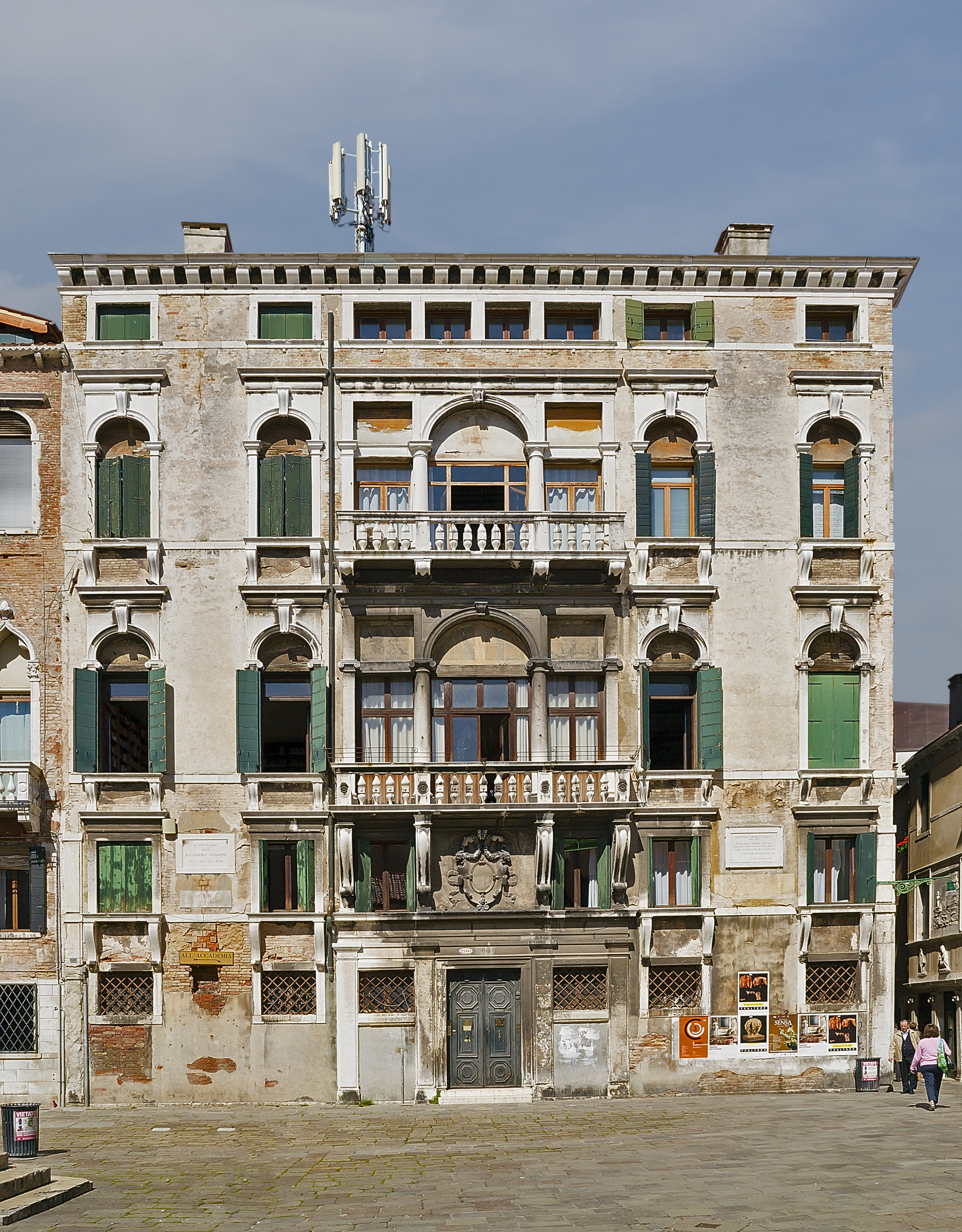 Palace Bellavite, Venice facade, on Campo San Maurizio.